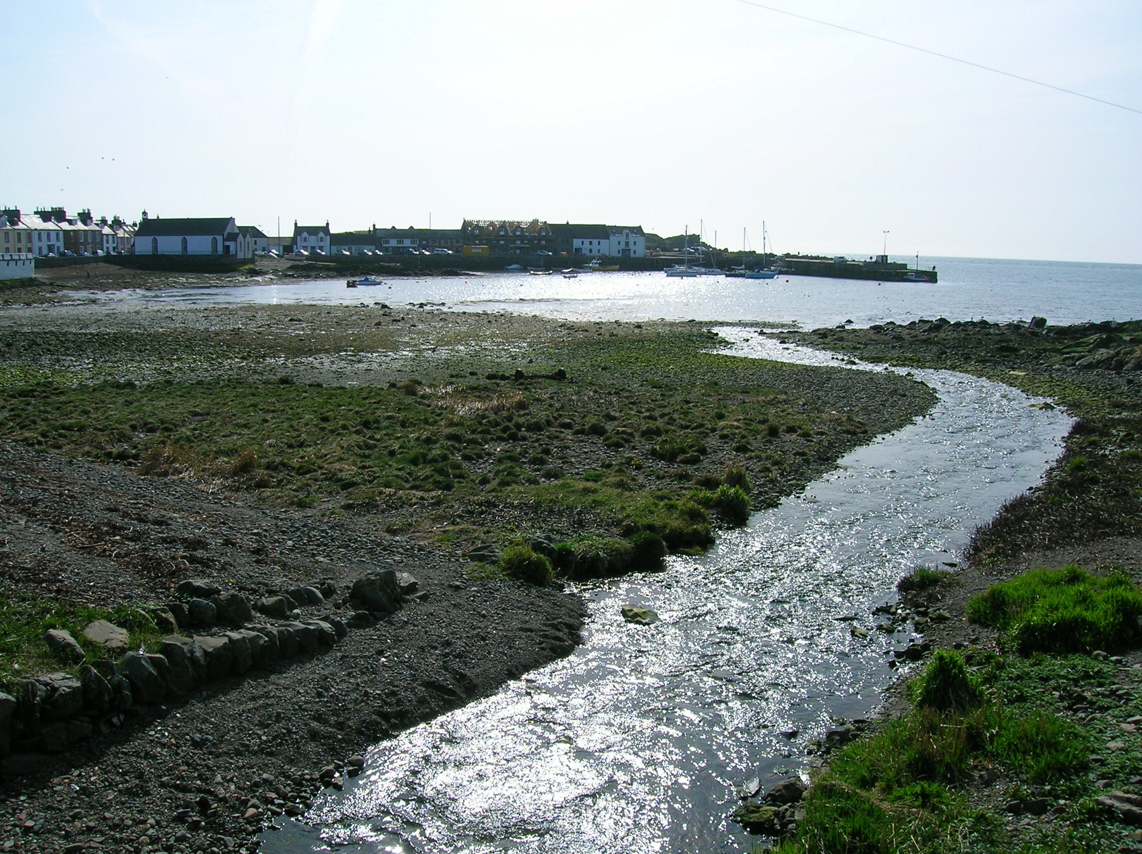 Isle of Whithorn harbour, The Machars, Dumfries and Galloway, Scotland.